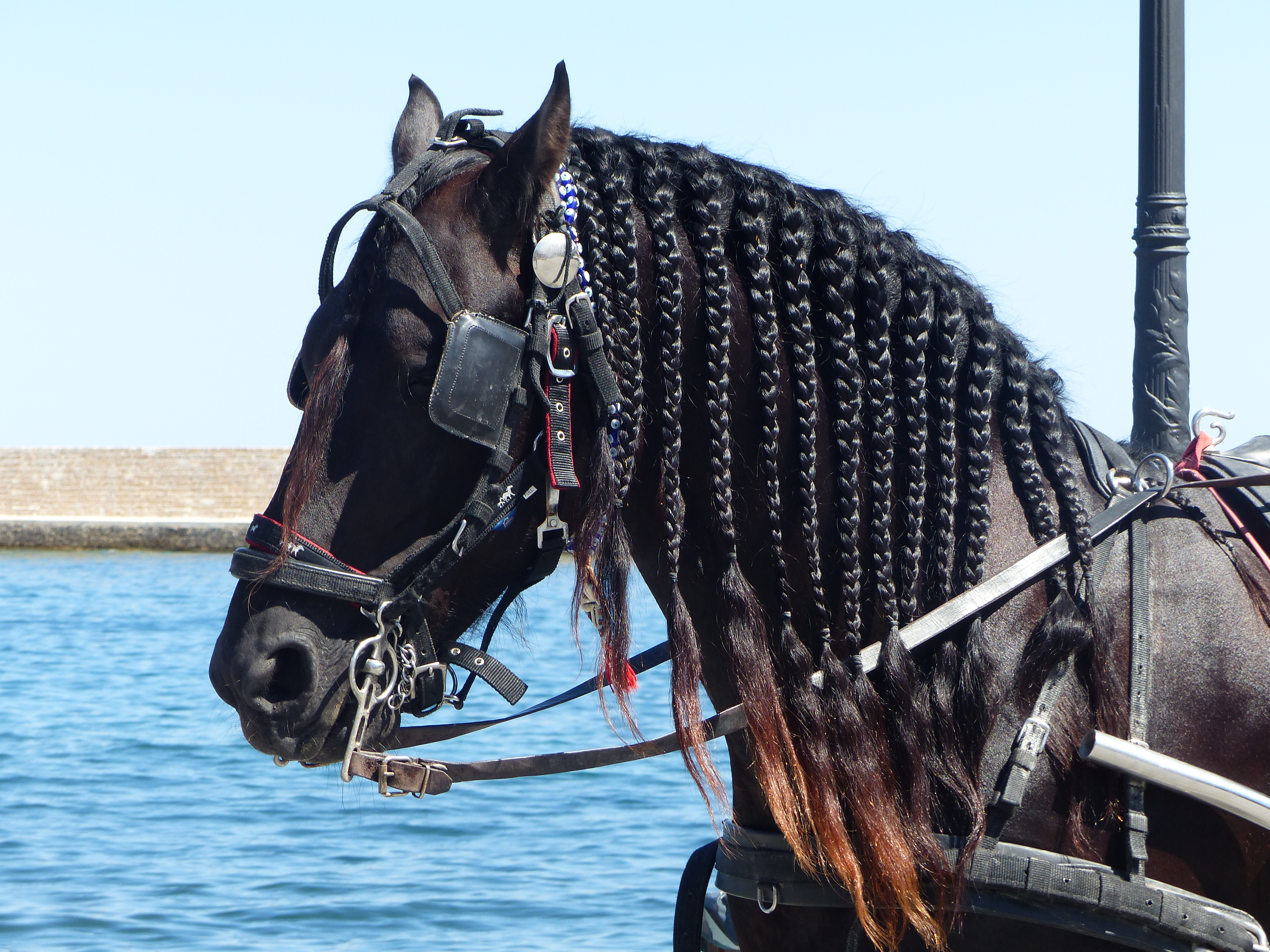 Black carriage horse head in the old harbour of Chania, Creta.